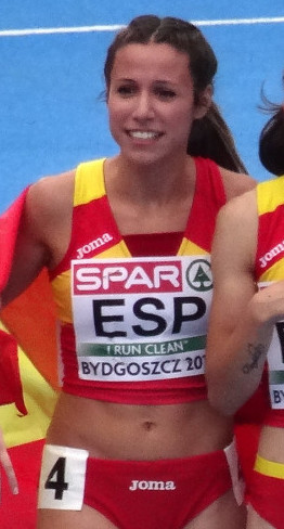 2017 European Athletics U23 Championships, 4x100m relay women final